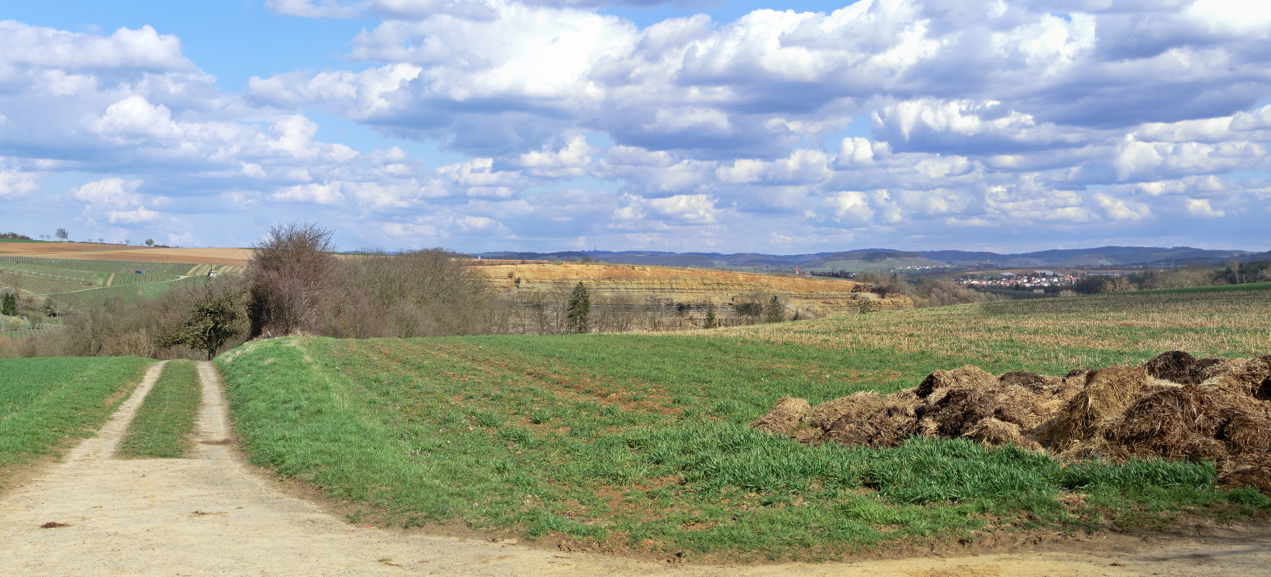 Ilsfeld stone quarry, a part of the village and grainfields.